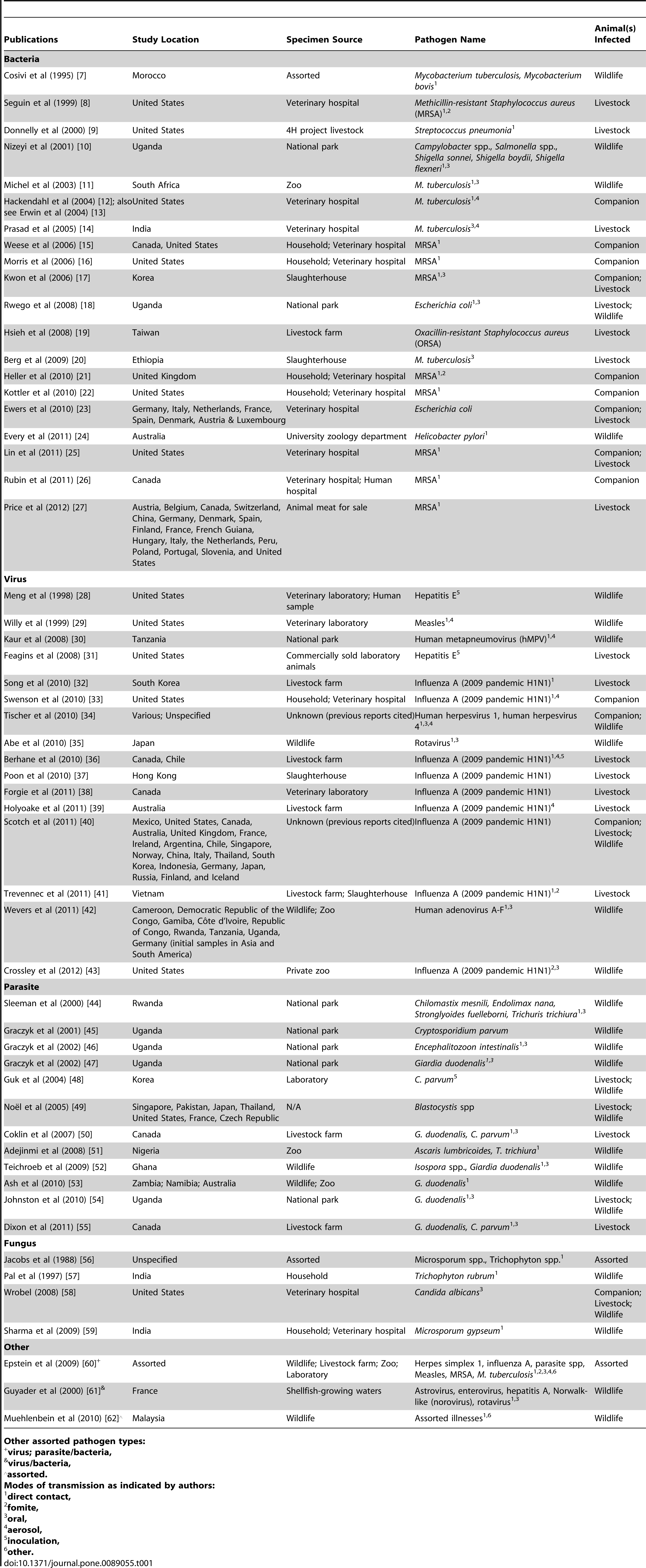 Included reports were based in 56 different countries. Although the reports spanned three decades, there seems to be an increasing number of studies published in recent years (Figure 2). Twenty eight percent of the studies were conducted in the United States (n = 16), 14% in Canada (n = 8), and 13% in Uganda (n = 7) (Figure 3). Within the study results, 21 publications discussed human-to-animal transmission of bacterial pathogens (38%); 16 studies discussed viral pathogens (29%); 12 studies discussed human parasites (21%); and seven studies discussed transmission of fungi, other pathogens, or diseases of multiple etiologies (13%). Bacterial pathogen reports were centered in North America and Europe. Viral studies were well-distributed globally. Parasitic disease reports were conducted chiefly in Africa. Fungal studies were conducted almost exclusively in India Copyright © 2014 Messenger et al This is an open-access article distributed under the terms of the Creative Commons Attribution License, which permits unrestricted use, distribution, and reproduction in any medium, provided the original author and source are properly credited.